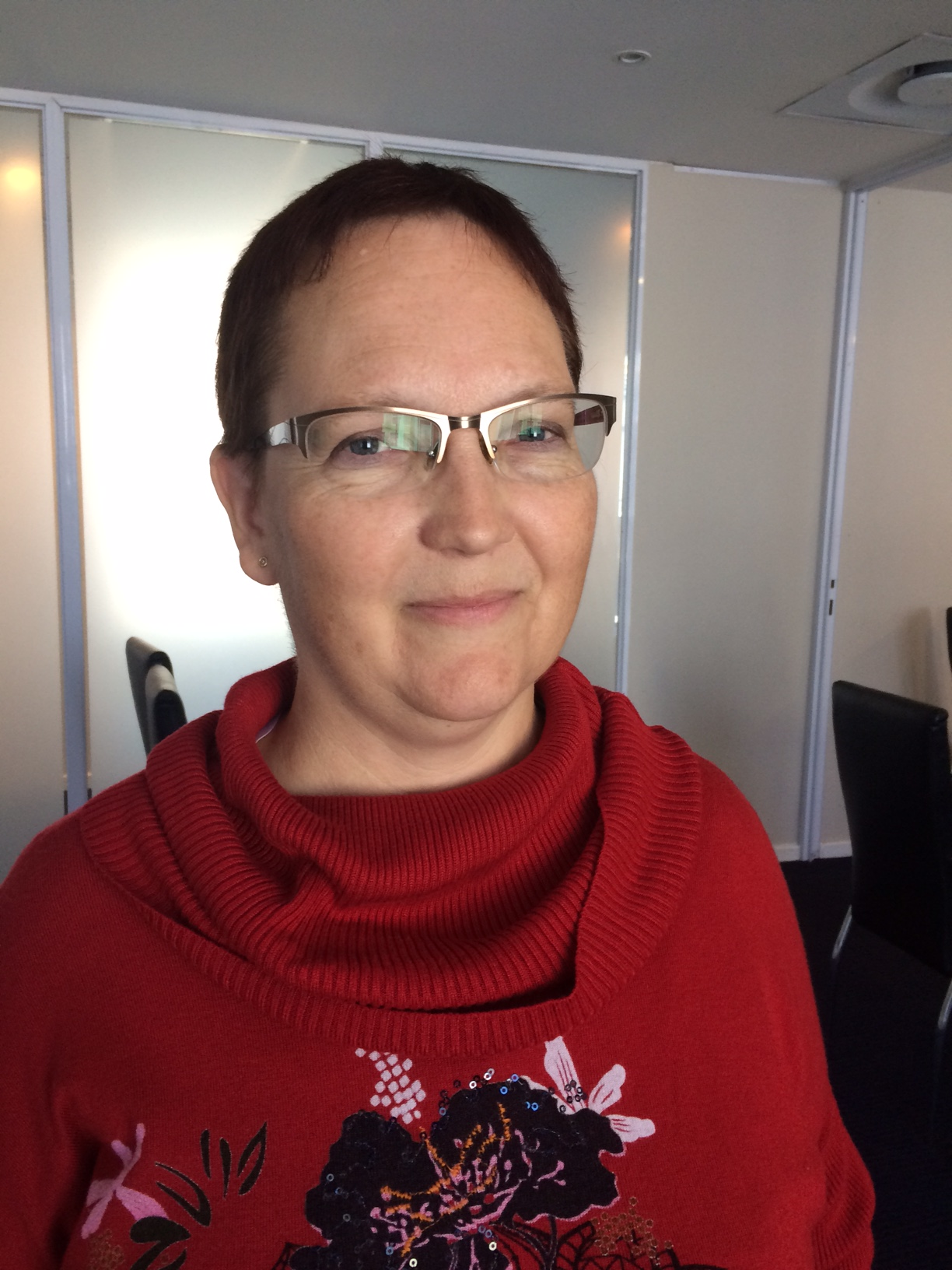 Anthere at the Wikipedia Primary School SSAJRP workshop in Cape Town, November 2016